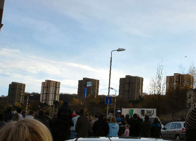 Mitchellhill tower blocks, Castlemilk. Picture taken 10seconds before demolition.